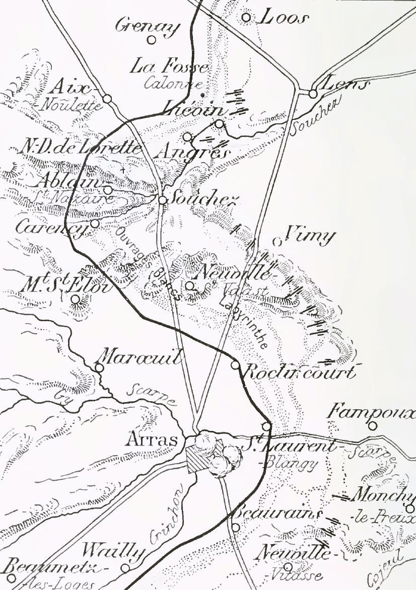 Map, Arras-Loos front, May 1915